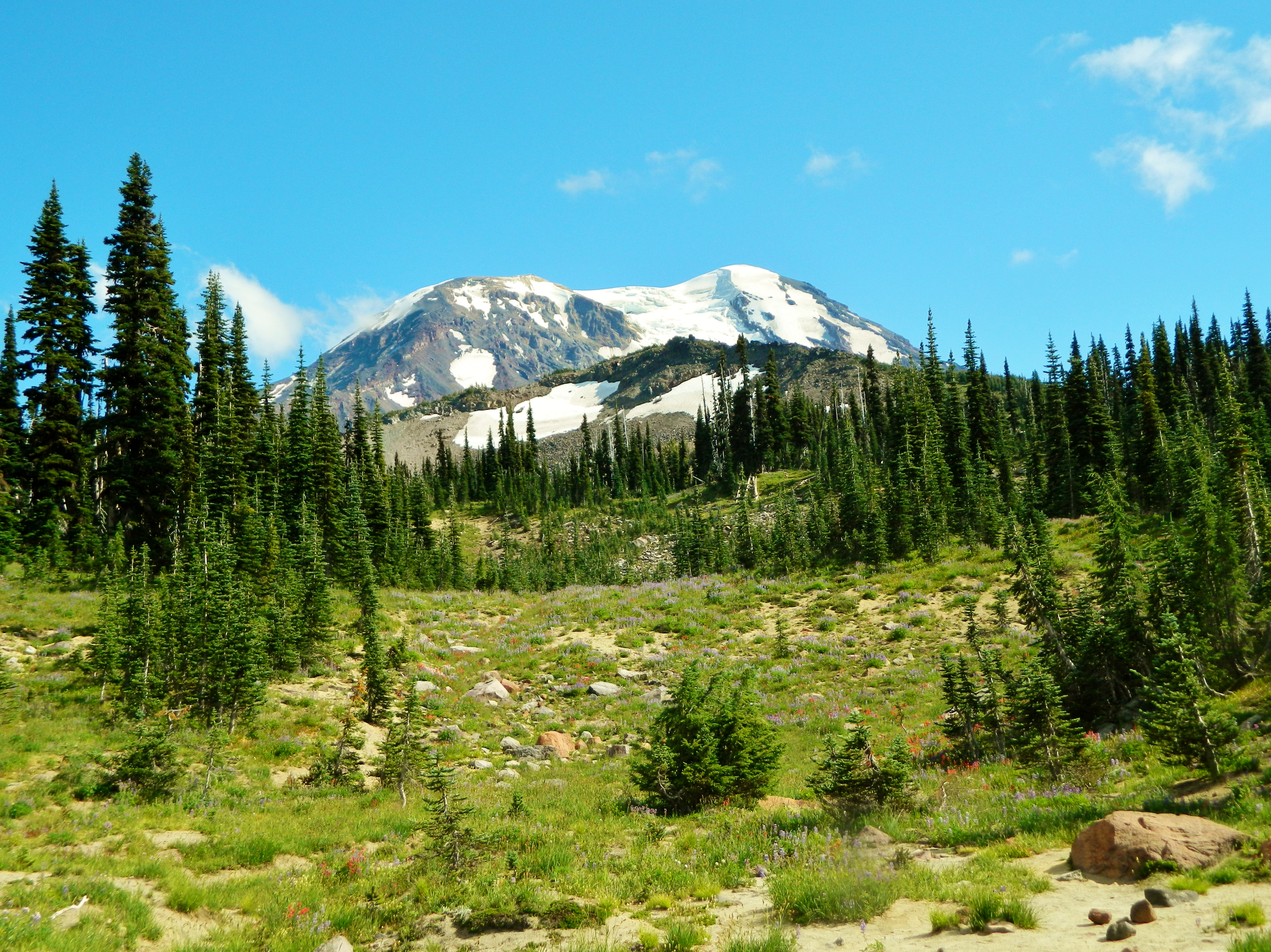 GPNF, WA